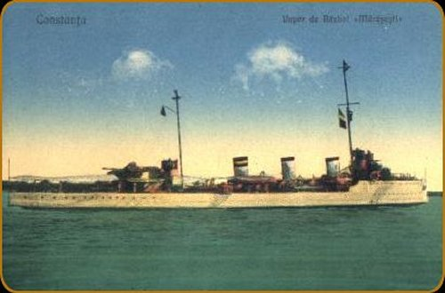 Royal Romanian scout cruiser Mărăşeşti.